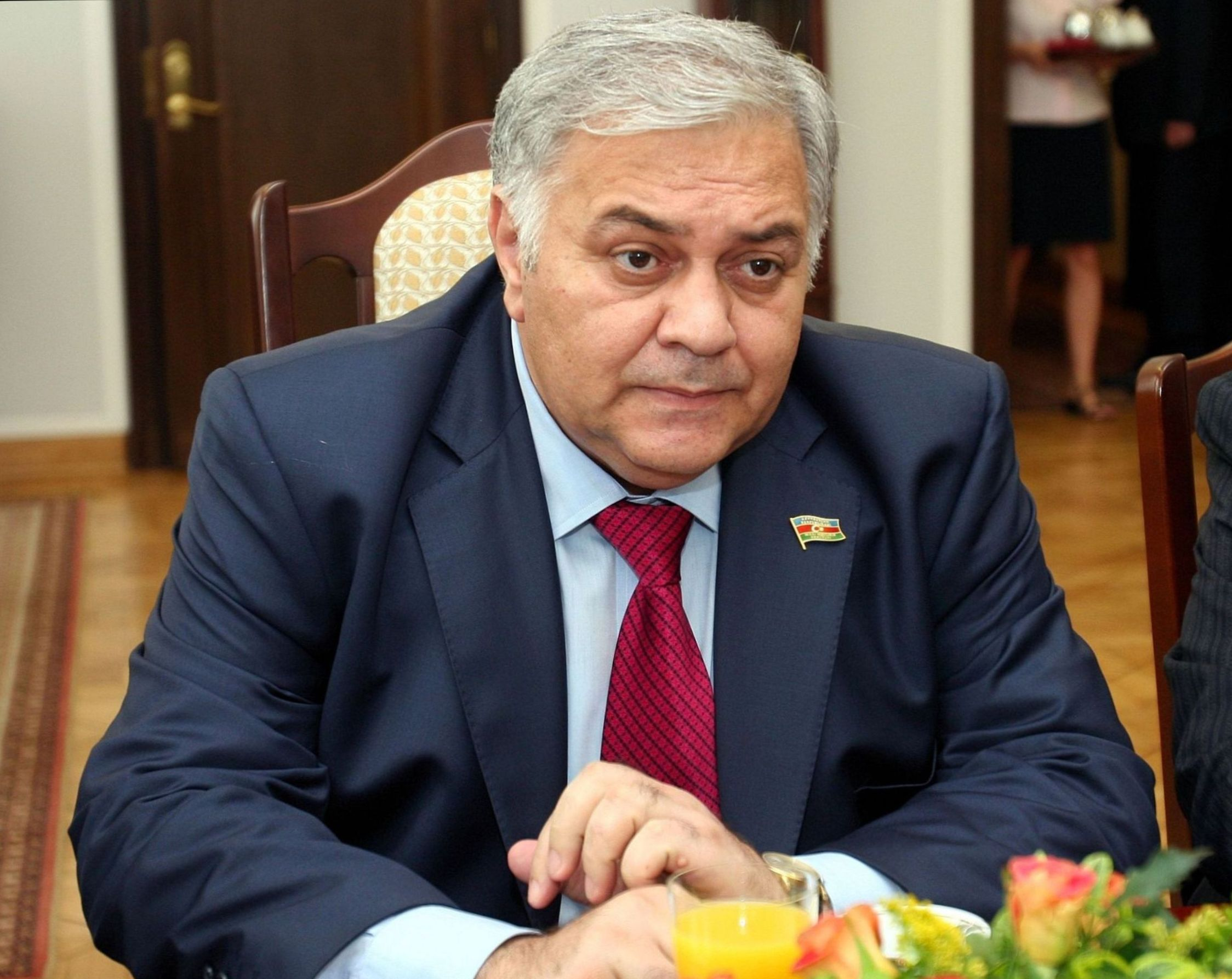 Speaker of the National Assembly of Azerbaijan Ogtay Asadov in the Polish Senate